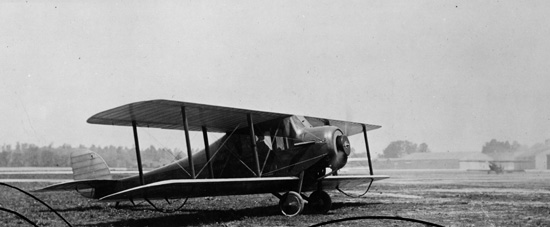 Dayton-Wright OW.1 Aerial Coupe during flight testing.